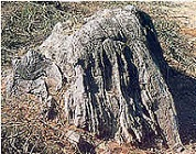 One of the 26 National Geological Monument of India